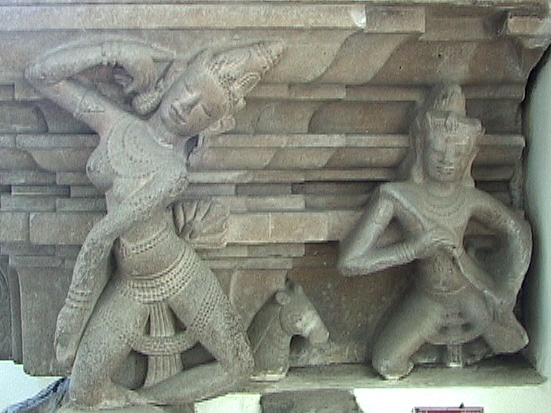 It is a picture of the 10th century Cham "Dancers' Pedestal" belonging to the Tra Kieu Style of Cham art. The figures are an apsara dancer and a gandharva musician.